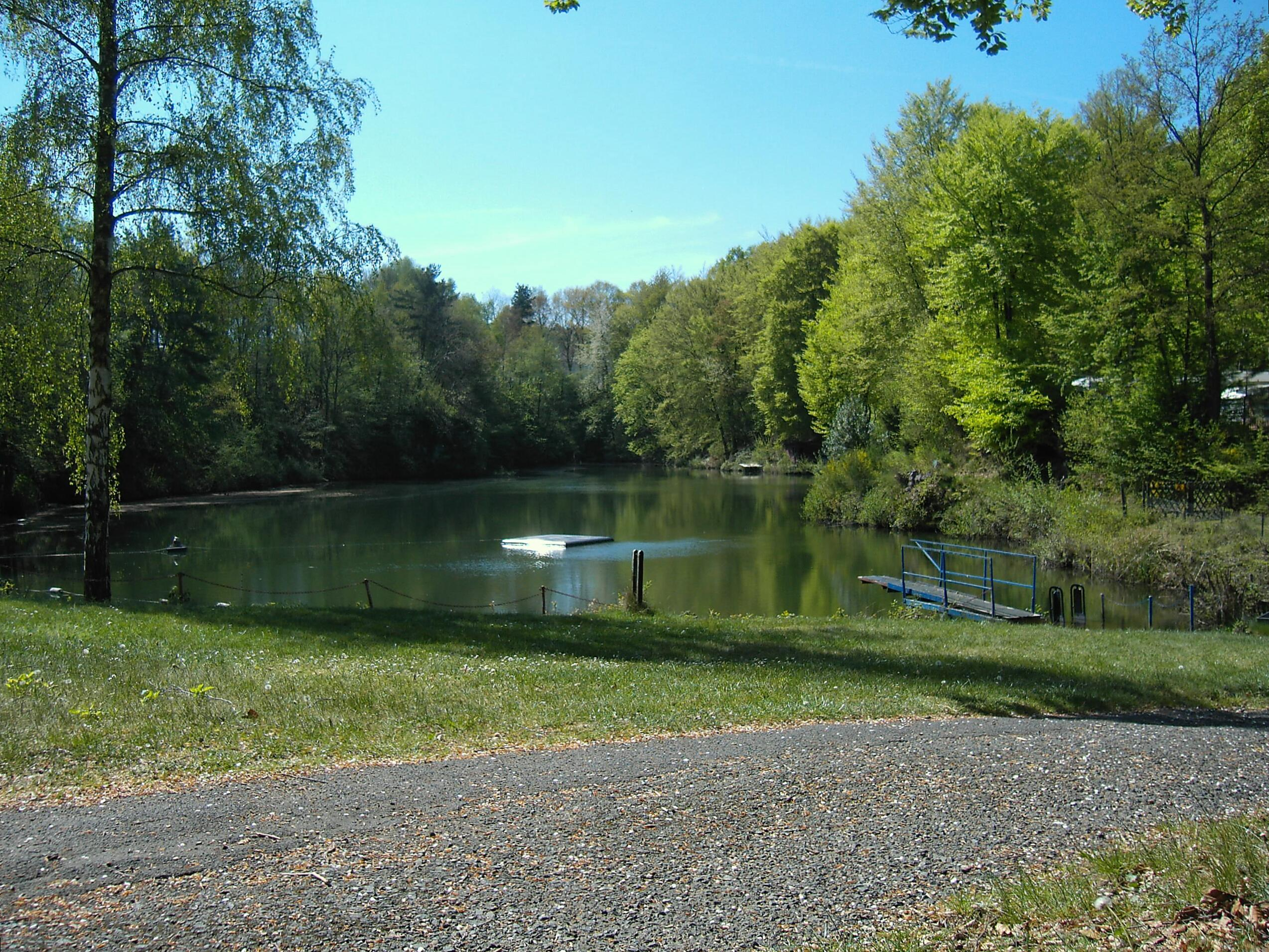 Blauer See (“Blue Lake”) in Vettelschoß